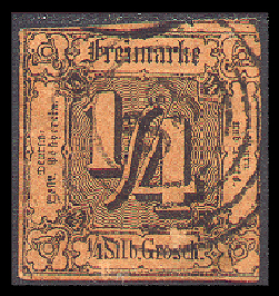 Thurn and Taxis stamp, 1852